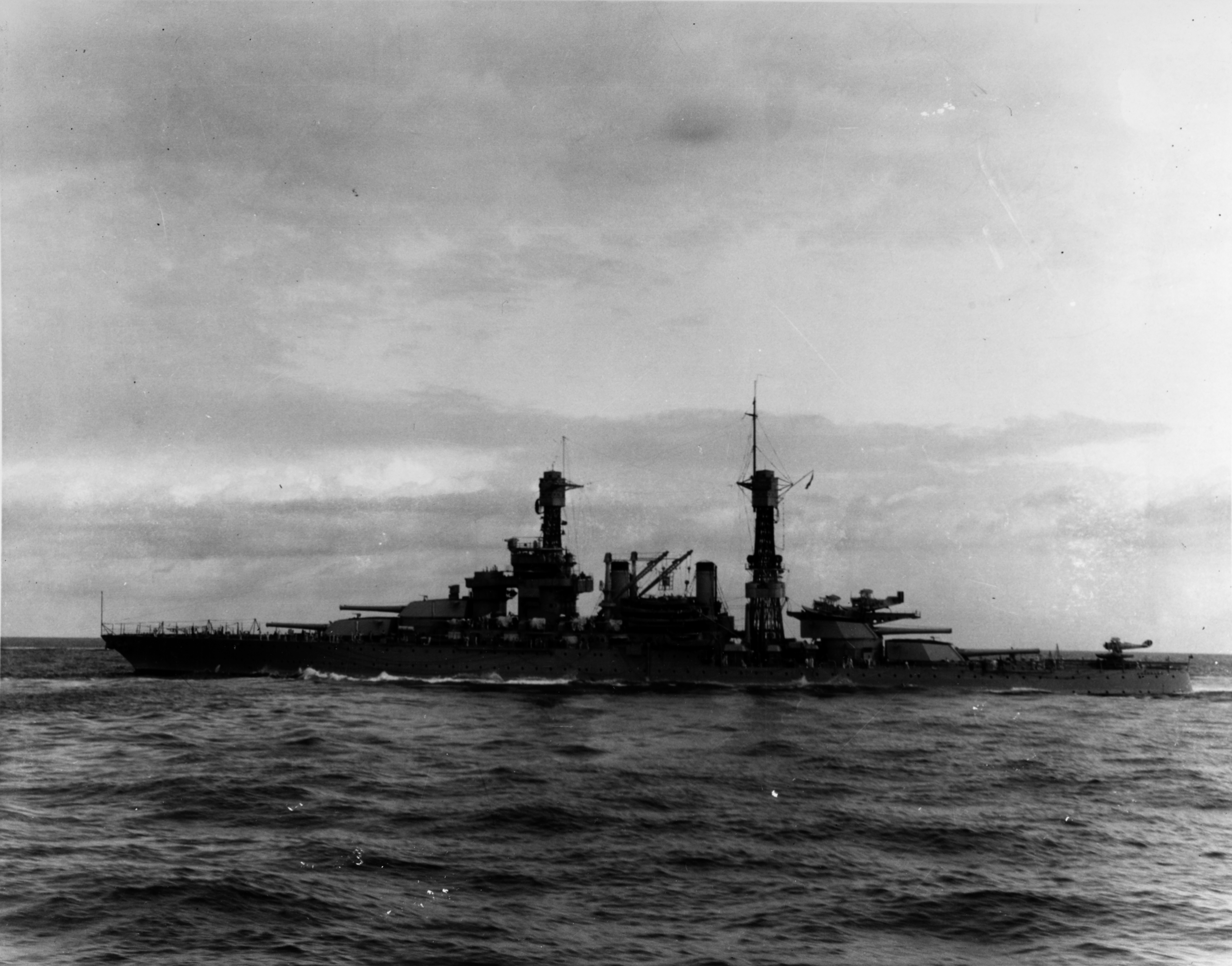 At sea off Honolulu, Hawaii, during the later 1920s or early 1930s. She has two Loening OL-6 on her turret catapult and one Vought UO or FU aircraft on the stern catapult. Donation of Franklin Moran, 1967. U.S. Naval History and Heritage Command Photograph.